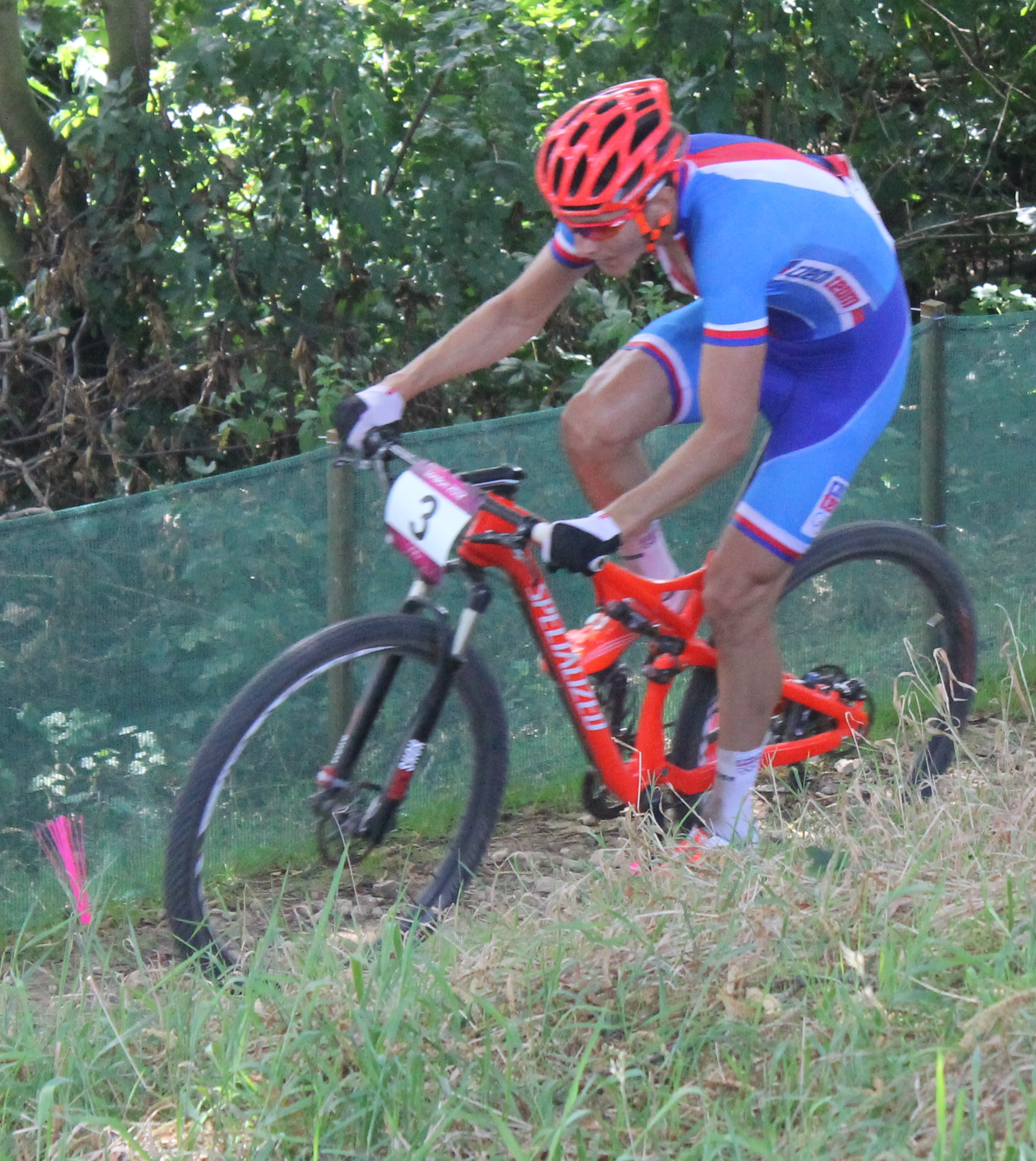 Cycling at the 2012 Summer Olympics – Men's cross-country Jaroslav Kulhavý (3) (CZE) IMG_4090